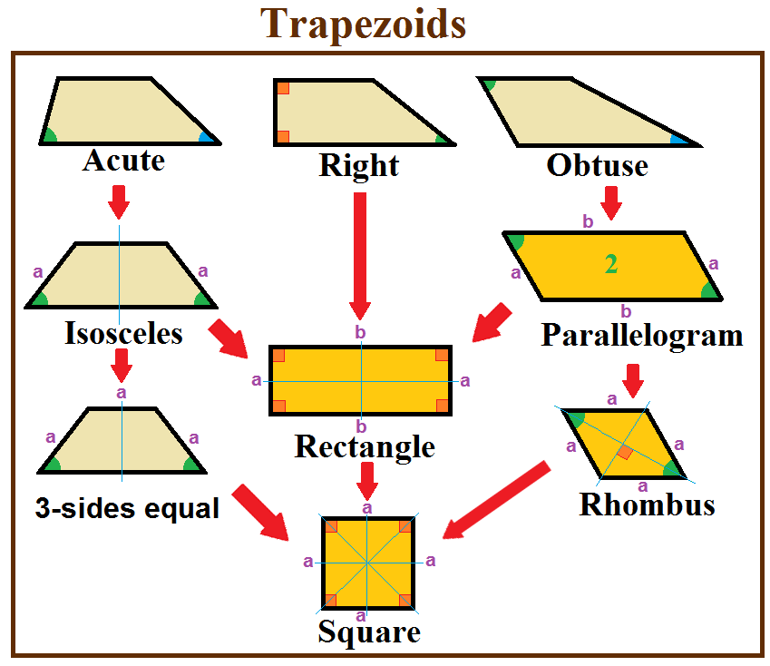 Trapezoid special cases: The isosceles trapezoid has mirror symmetry. The parallelogram, rectangle, rhombus and square are special cases with higher symmetry. The parallelogram has central symmetry. The rectangle and rhombus have two mirror symmetry, and the square has 4 mirror symmetry.